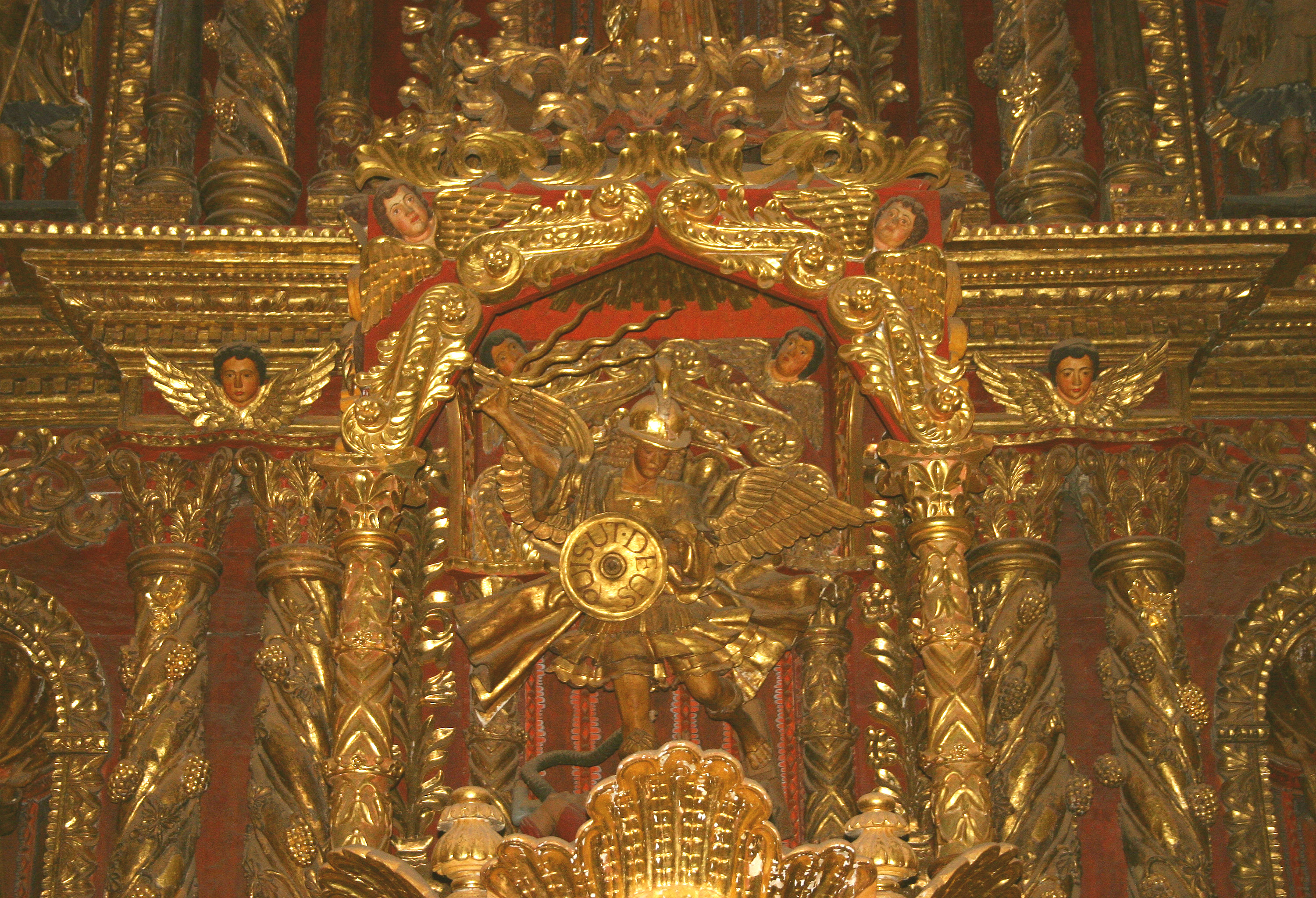 Reredos, church, San Miguel de Velasco, Bolivia